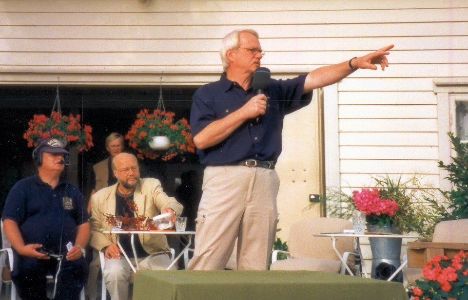 The filming of the tv program The Evening of Nature in Käpylä, Helsinki in August 2000